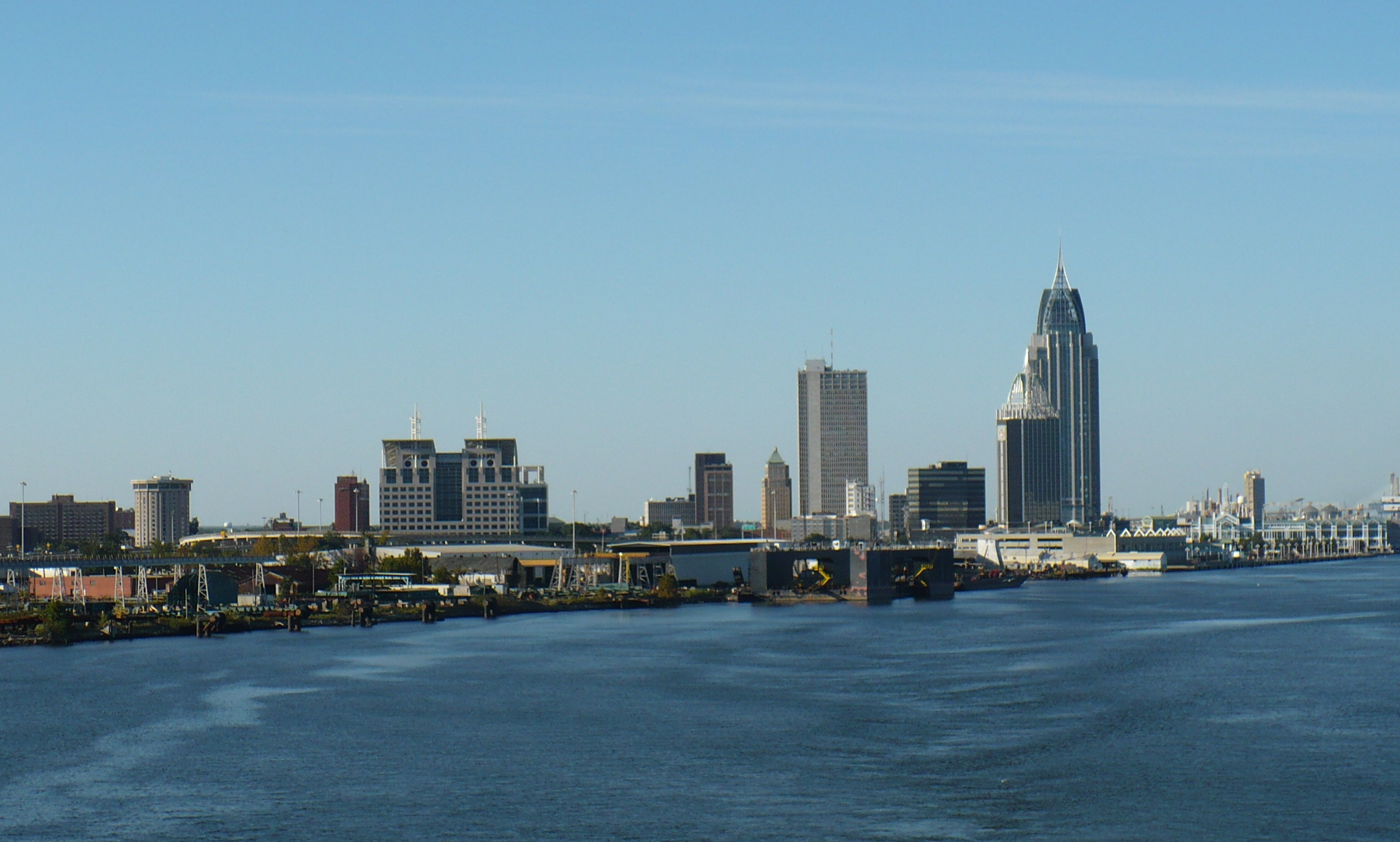 View of downtown Mobile, Alabama. Taken from onboard the MS Holiday.